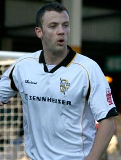 Kyle Perry playing for port vale Taken by myself, it is my own work